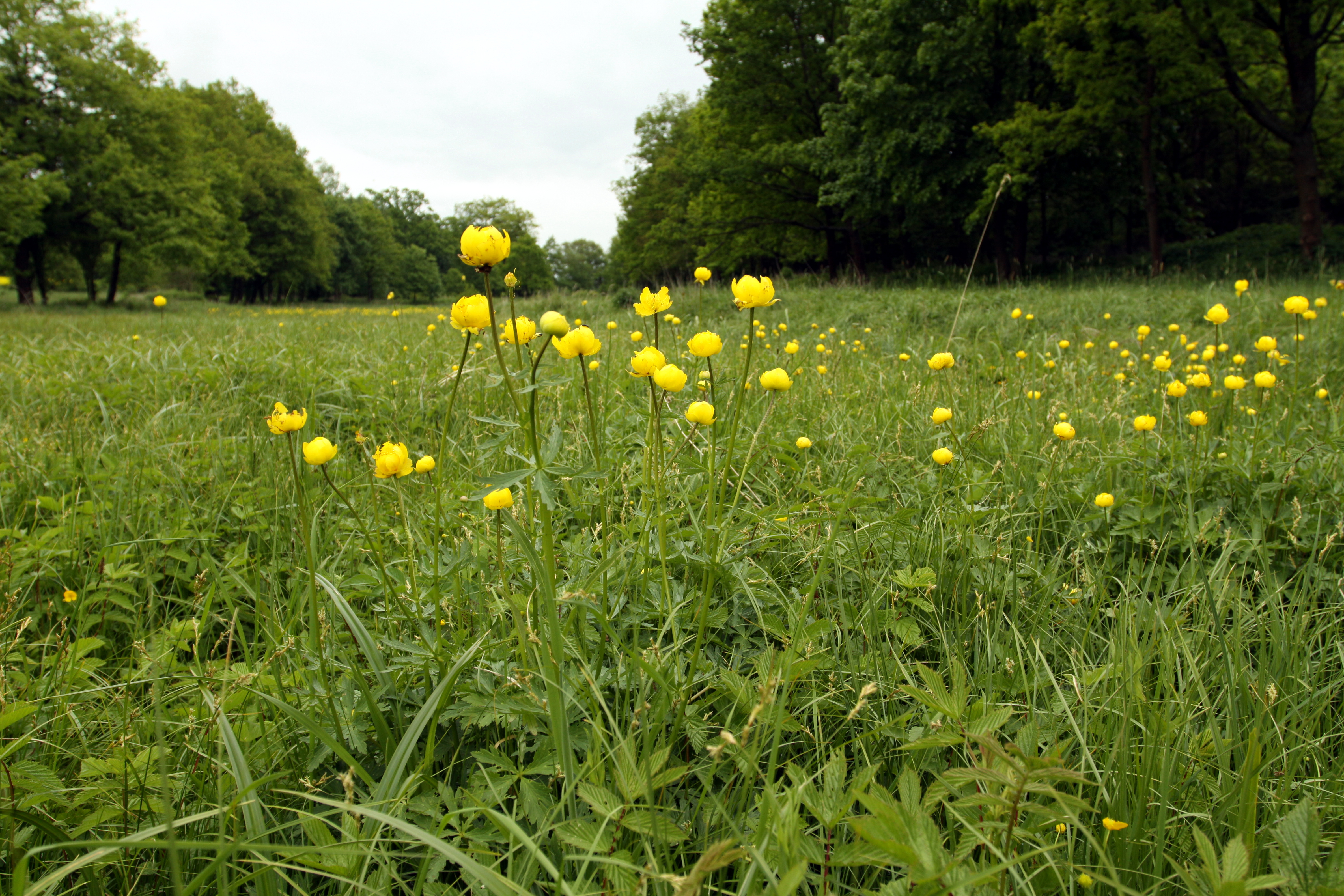 Trollius europaeus in natural monument Kopáčovská near Čimelice, Písek District, Czech Republic